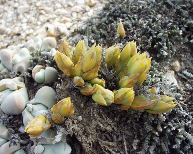 Sceletium tortuosum (en) Sceletium tortuosum, a photography originating of the internet site The accord of the autor, H. Brisse, is here. (fr) Sceletium tortuosum, une photographie issue du site internet L'accord de l'auteur, H. Brisse, se situe ici.